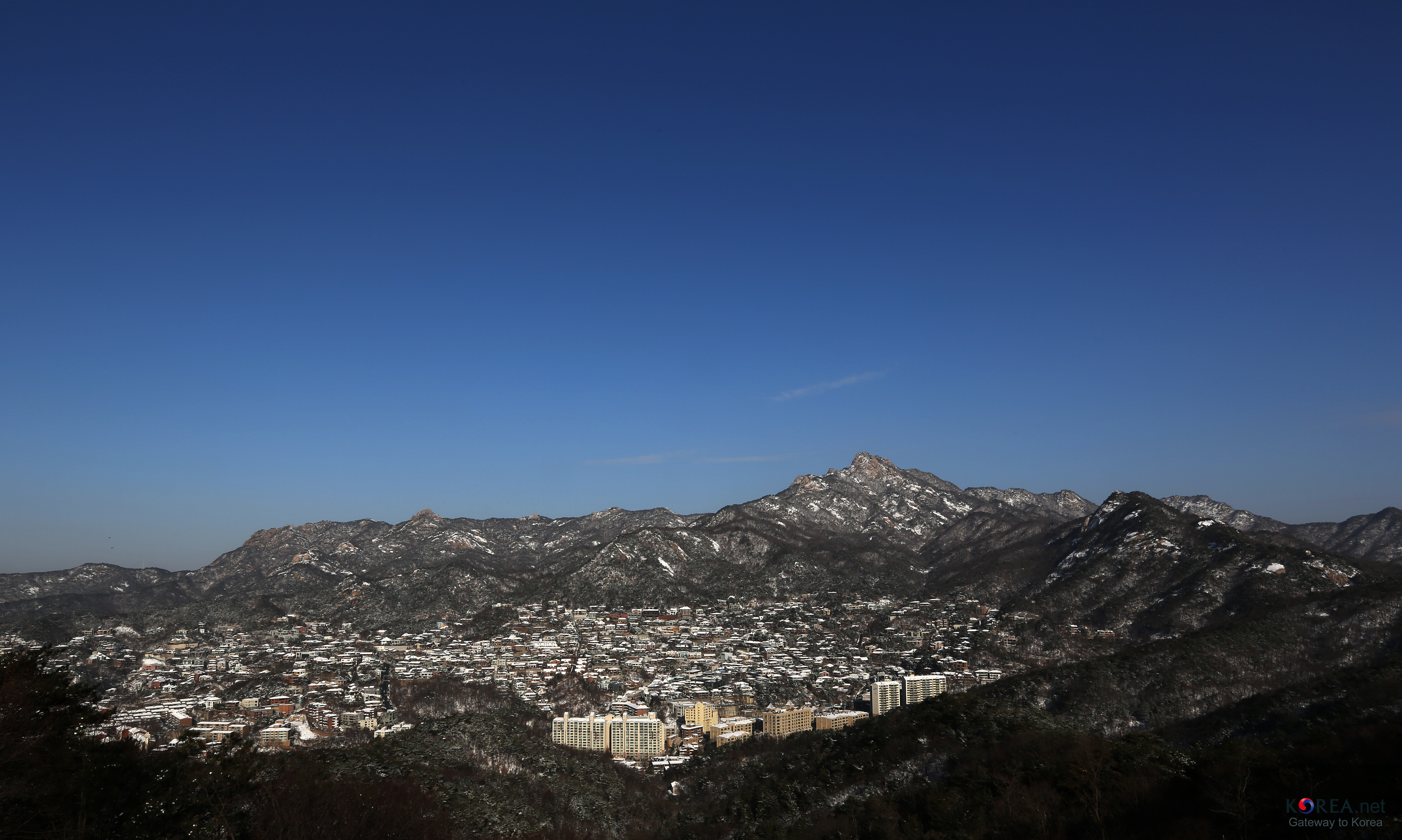 Snowfall in Seoul December 13, 2013. Pyeongchang-dong, Jongno-gu, Seoul Ministry of Culture, Sports and Tourism Korean Culture and Information Service ( JEON HAN 눈 내린 북한산과 평창동 2013-12-13 종로구, 서울 문화체육관광부 해외문화홍보원 코리아넷 전한